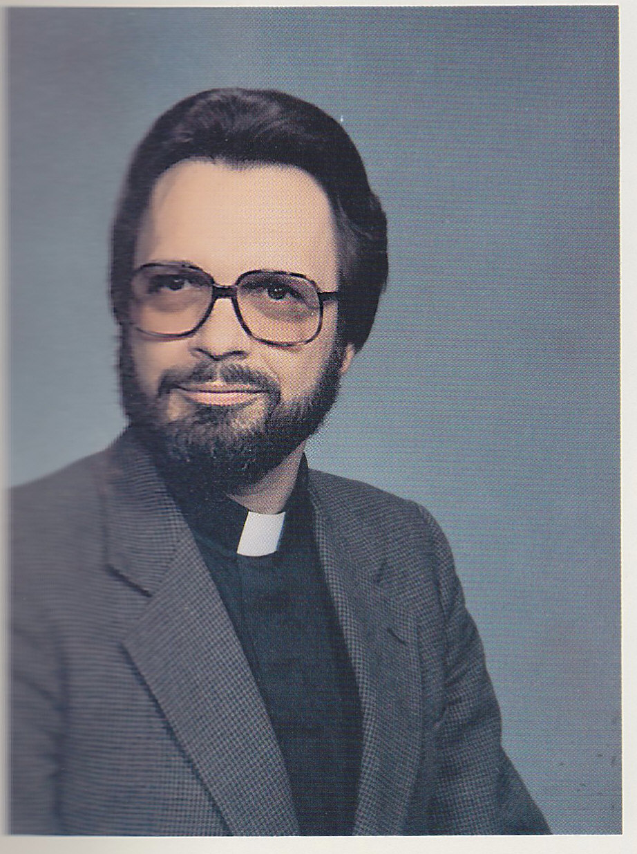 Pastor Lyle Rozeboom from Directory